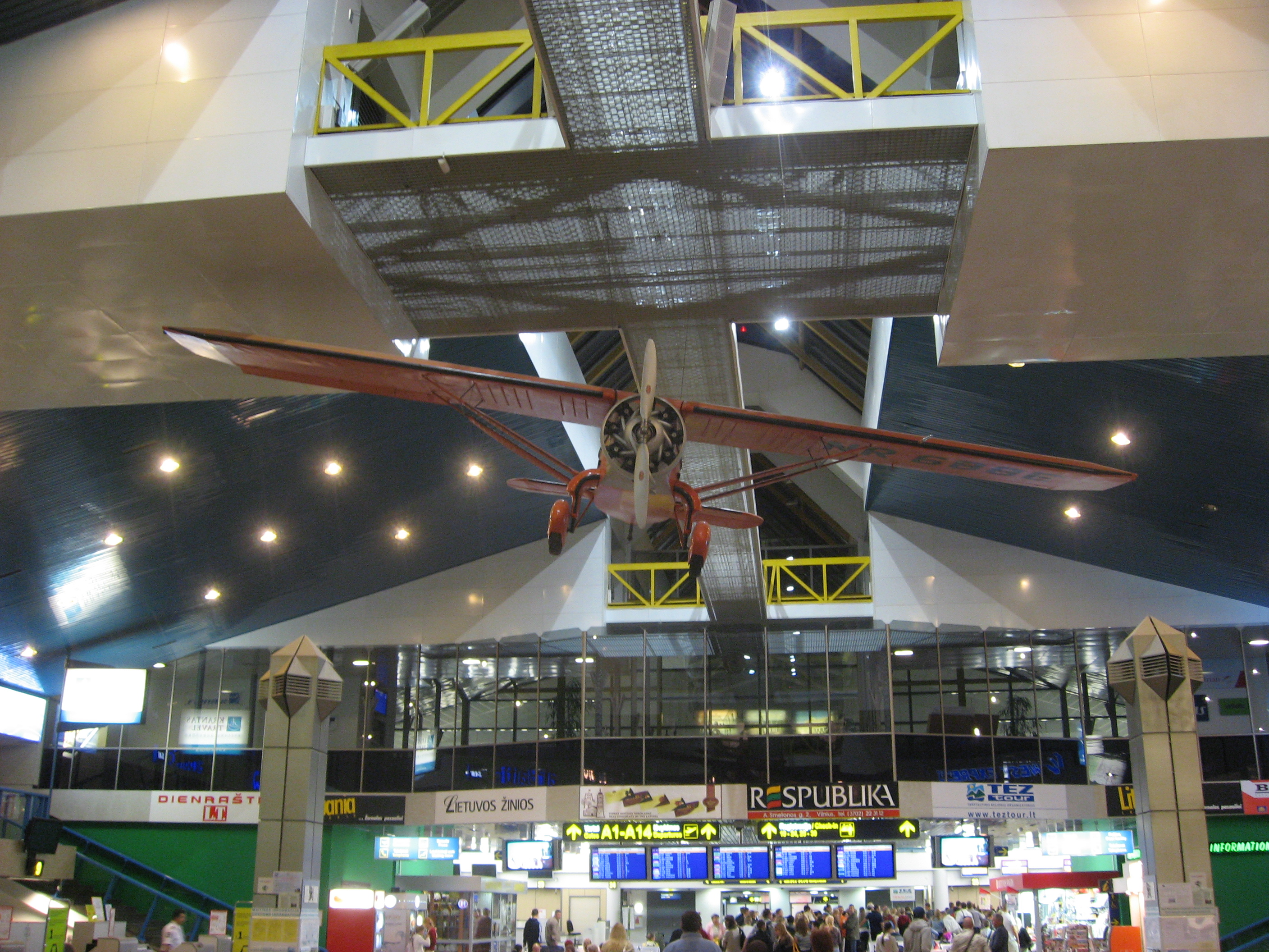 Vilnius airport interior